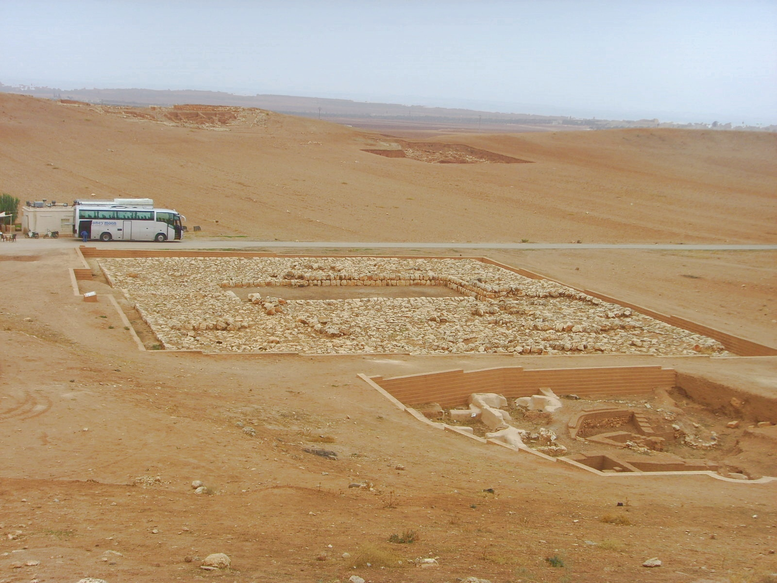 Ebla/Syria Ishtar Temple in the lower town (temple P).